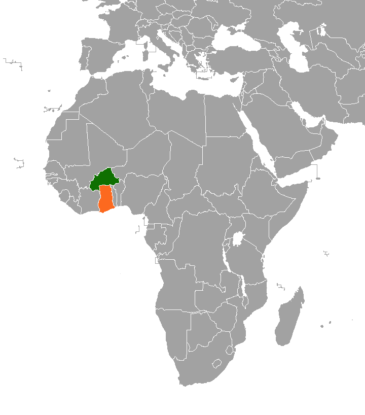 From 1985 to 1987 Burkina Faso (orange) and Ghana (green) tried to integrate in a union state